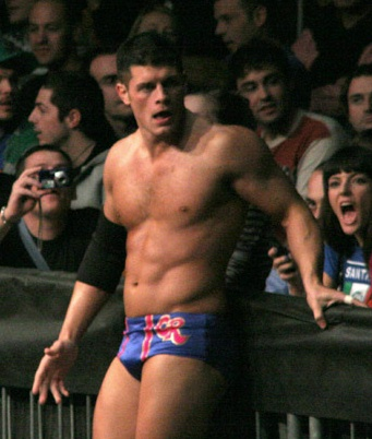 A cropped version of Andrea90's image File:Cody Rhodes a.jpg, showing professional wrestler Cody Rhodes in Milan, Italy on November 6, 2008